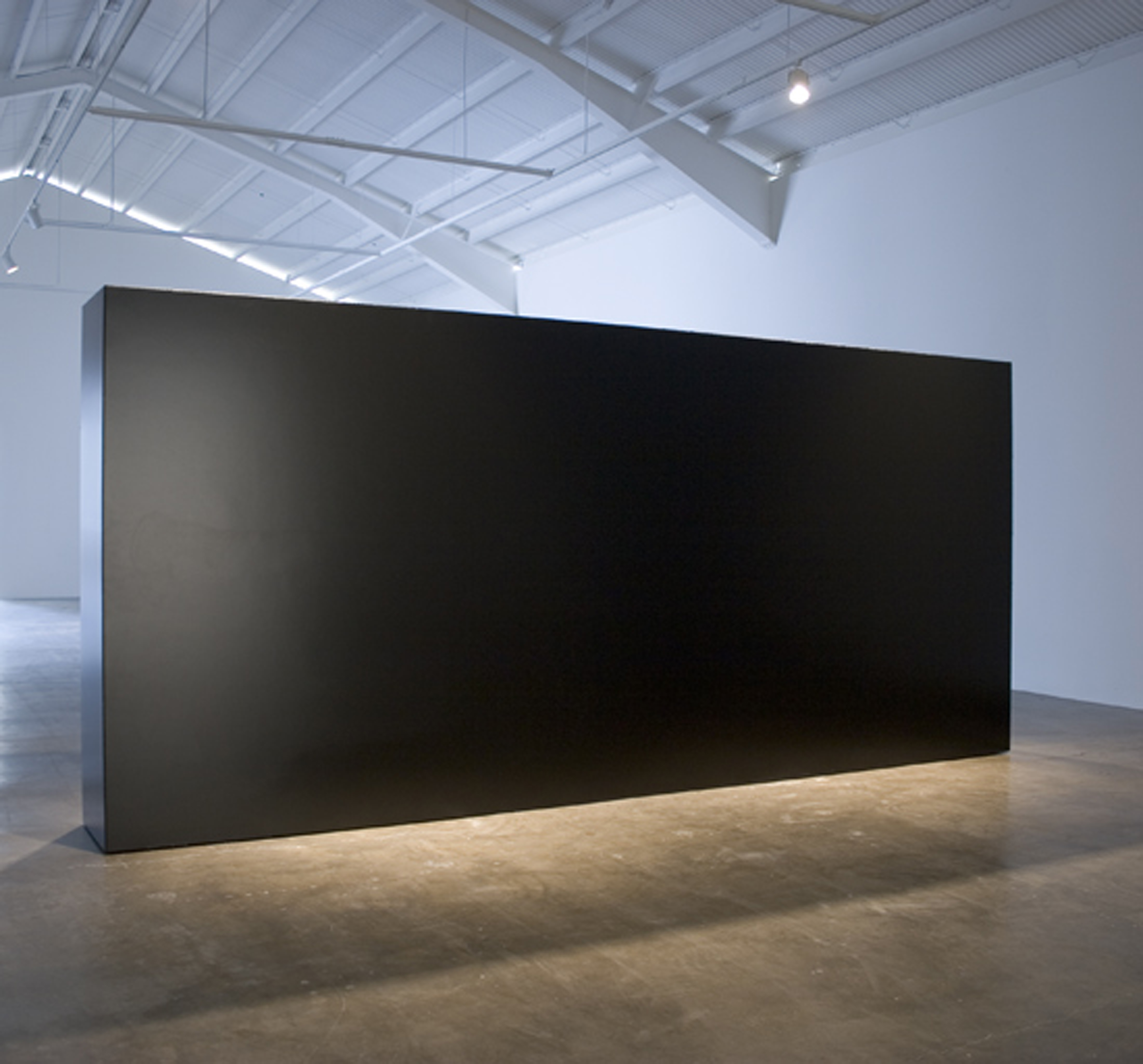 View of Tony Smith show installation — "Wall and The Keys to. Given!" At the William Griffin Gallery, Bergamont Station, Santa Monica, California. Photographed by the William Griffin Gallery.